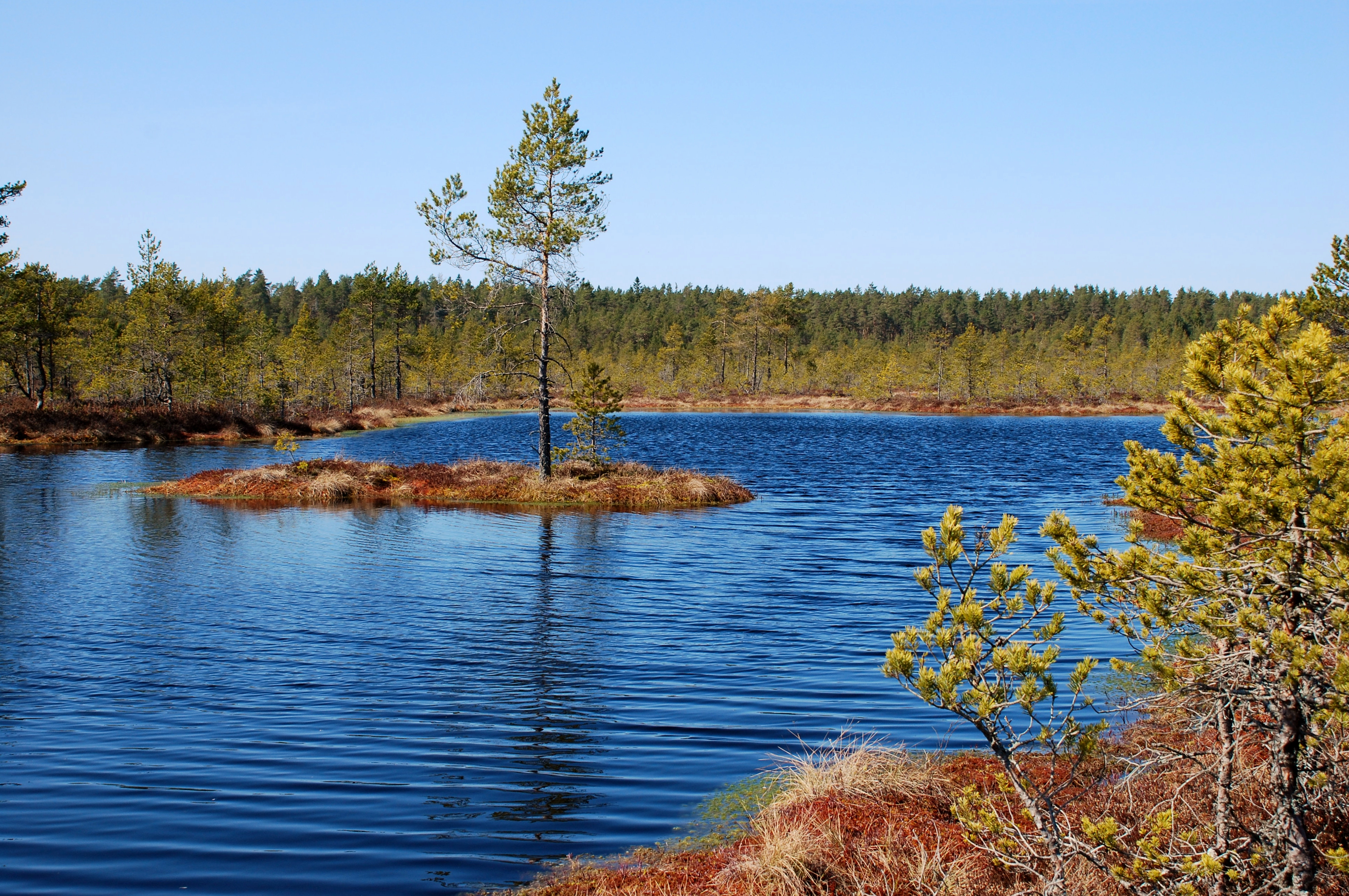 Viru bog and its island